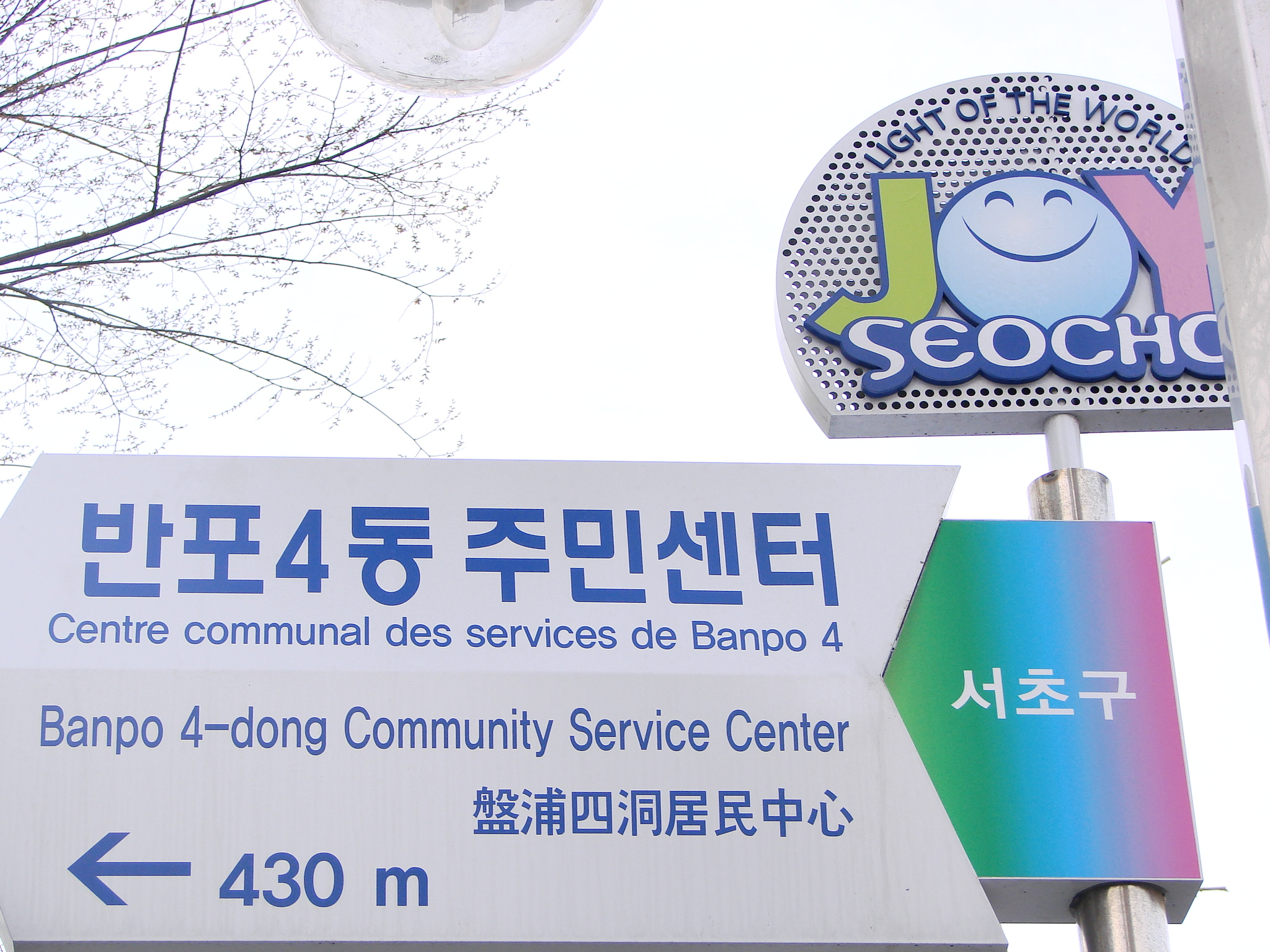 Sign for the Banpo 4-dong Community Service Center